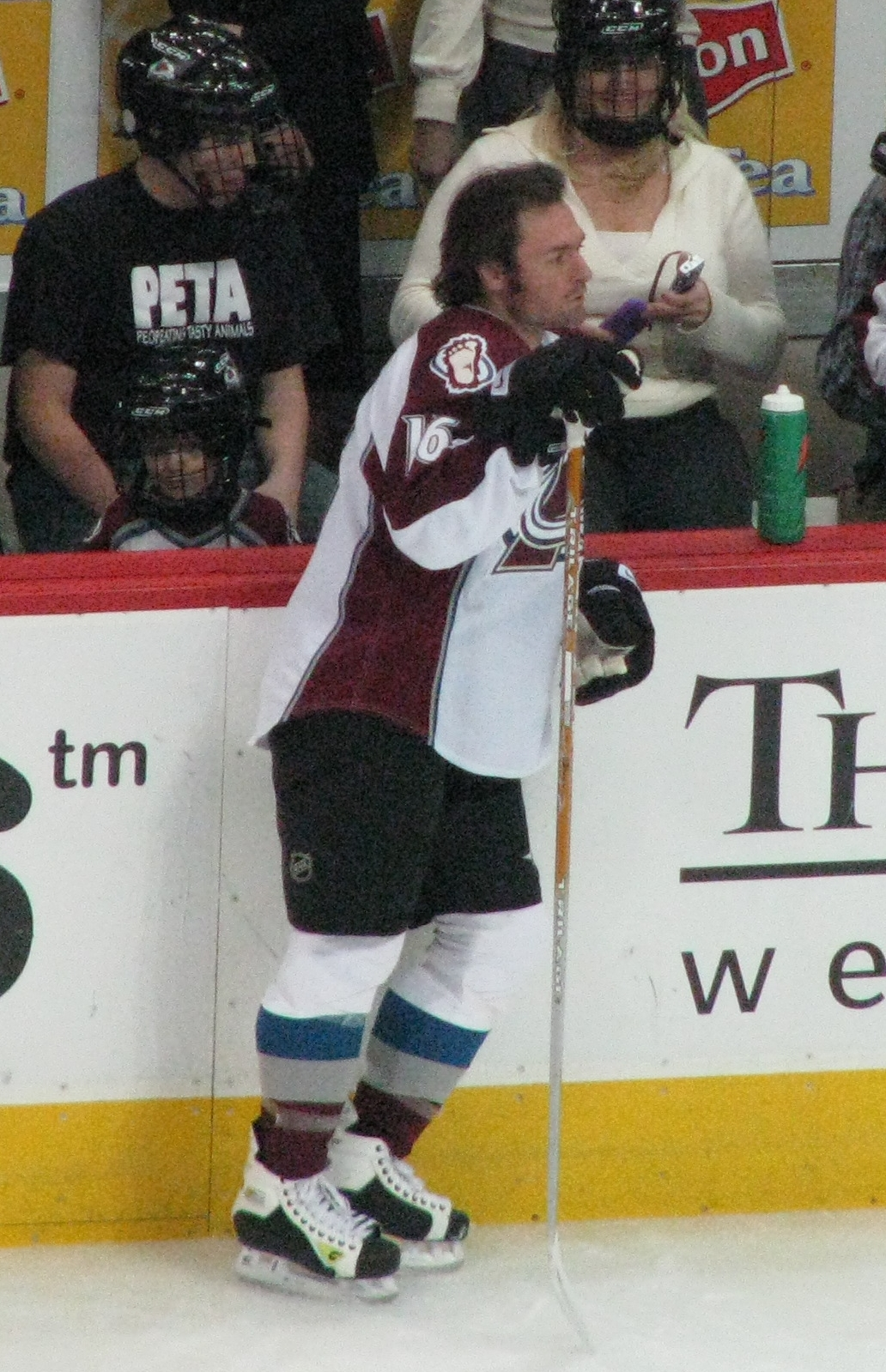 Darcy Tucker, Pre-game warm-up.